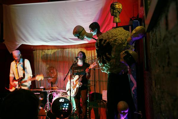 fire Zuave live in Athens, Georgia.